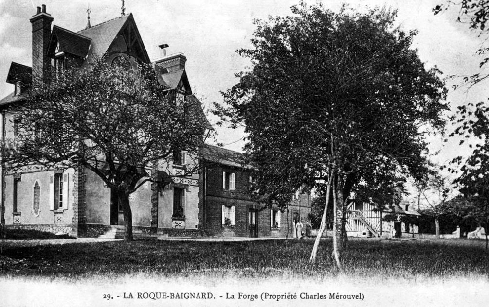 Manoirdeshetres